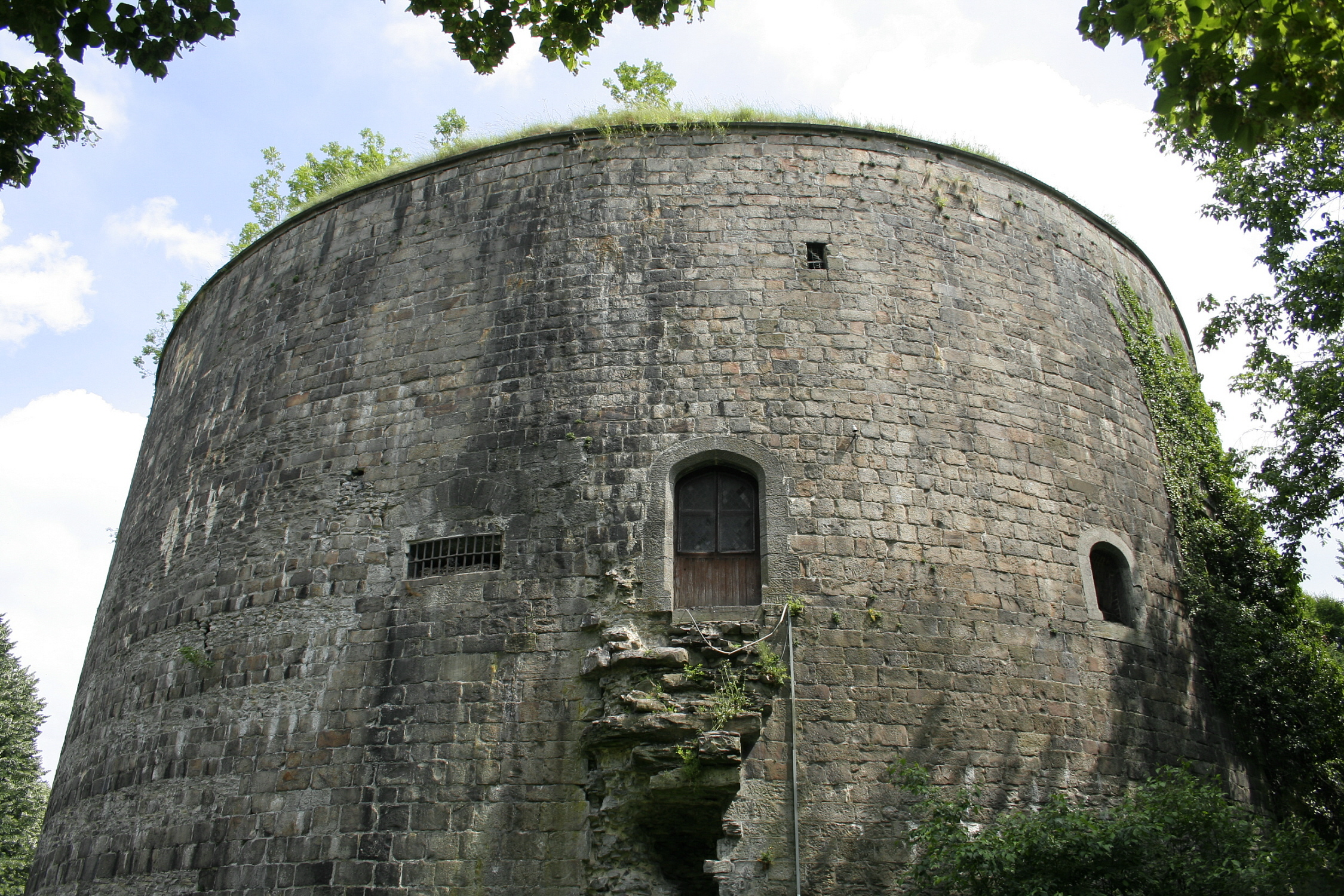 Tournai (Belgium), Henri VIII tower also called sometimes «Grosse Tour » (XVIth century).